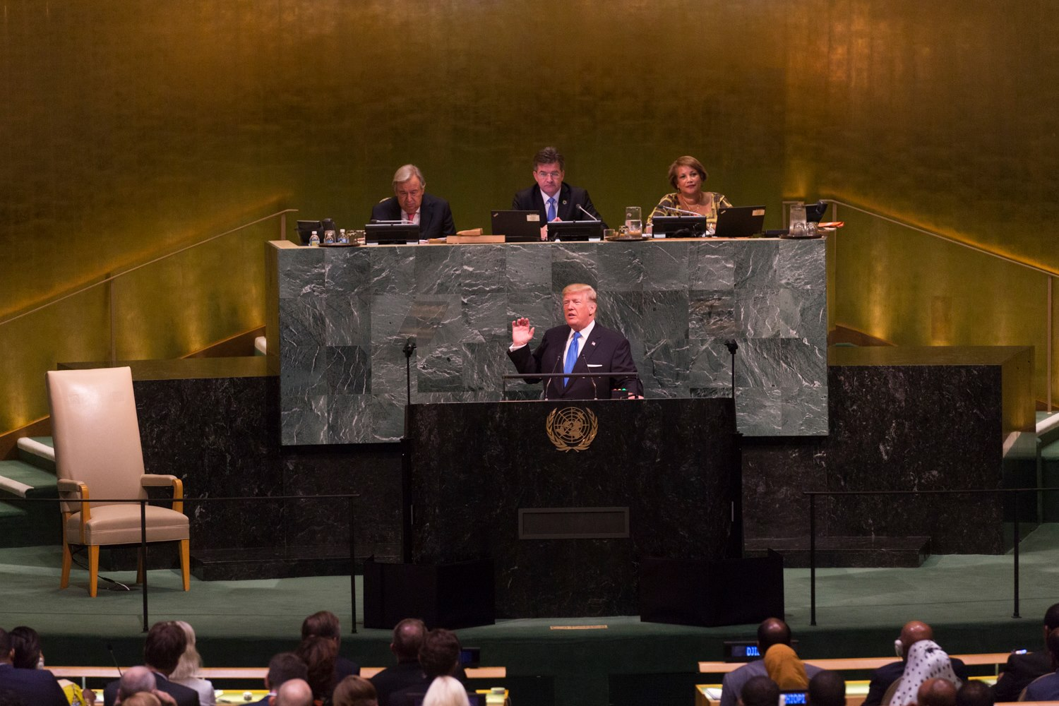 President Donald J. Trump addresses the 72nd Session of the United Nations General Assembly (Official White House Photo by D. Myles Cullen)